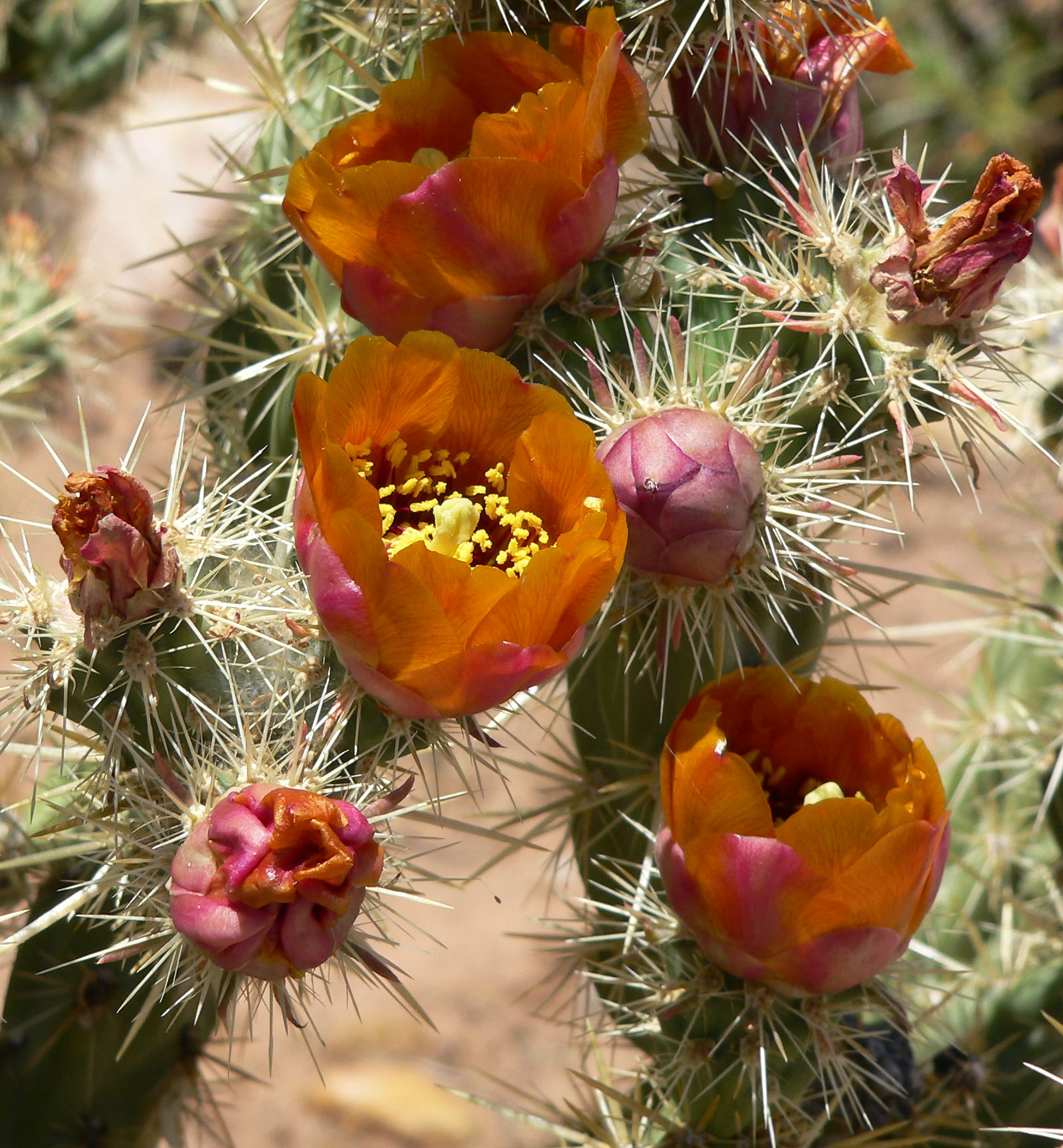 Cylindropuntia acanthocarpa var. coloradensis in lower Pine Creek Canyon, Red Rock Canyon, Spring Mountains, southern Nevada (elev. about 1200 m)